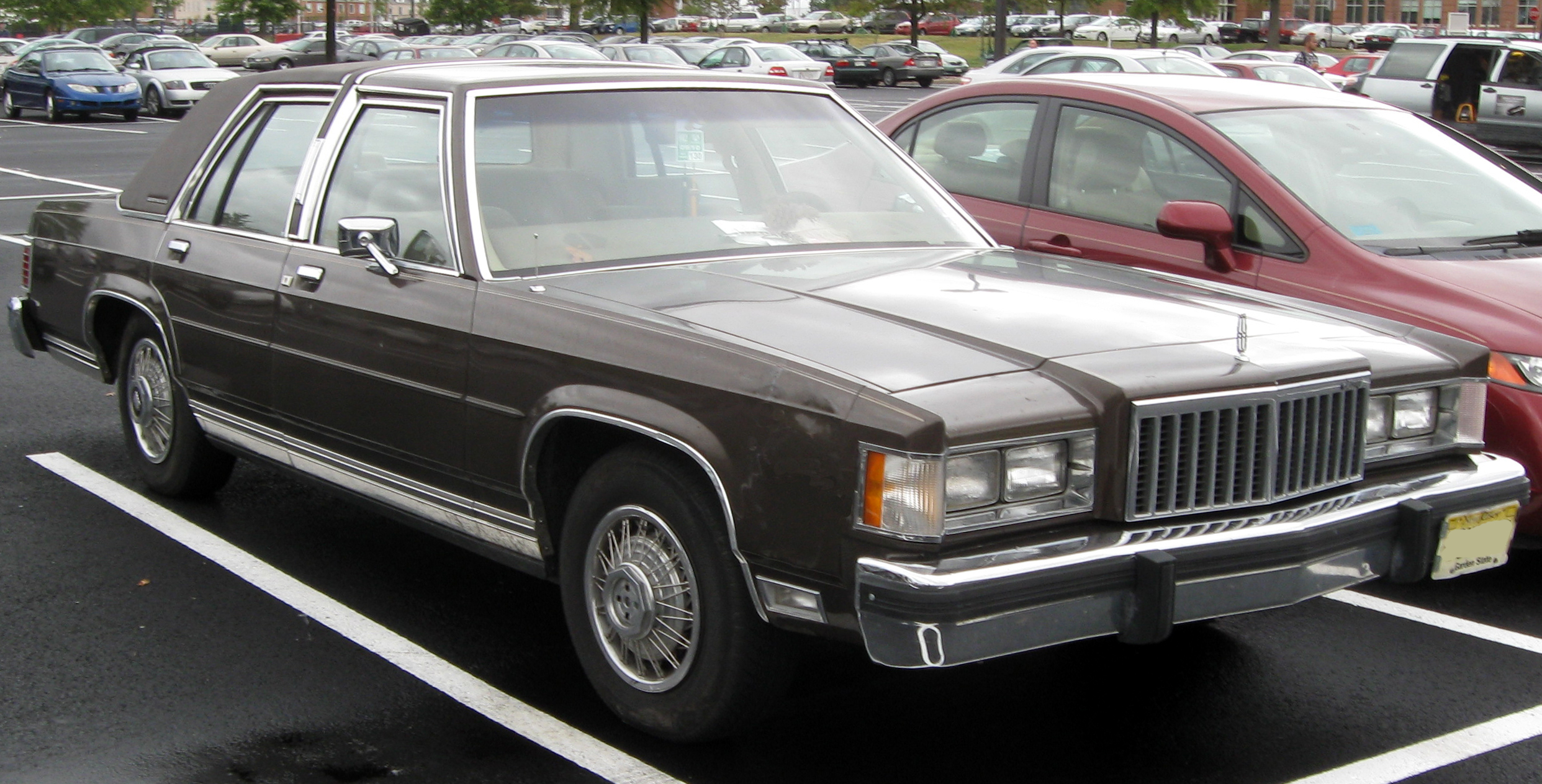 1983-1987 Mercury Grand Marquis photographed in College Park, Maryland, USA.